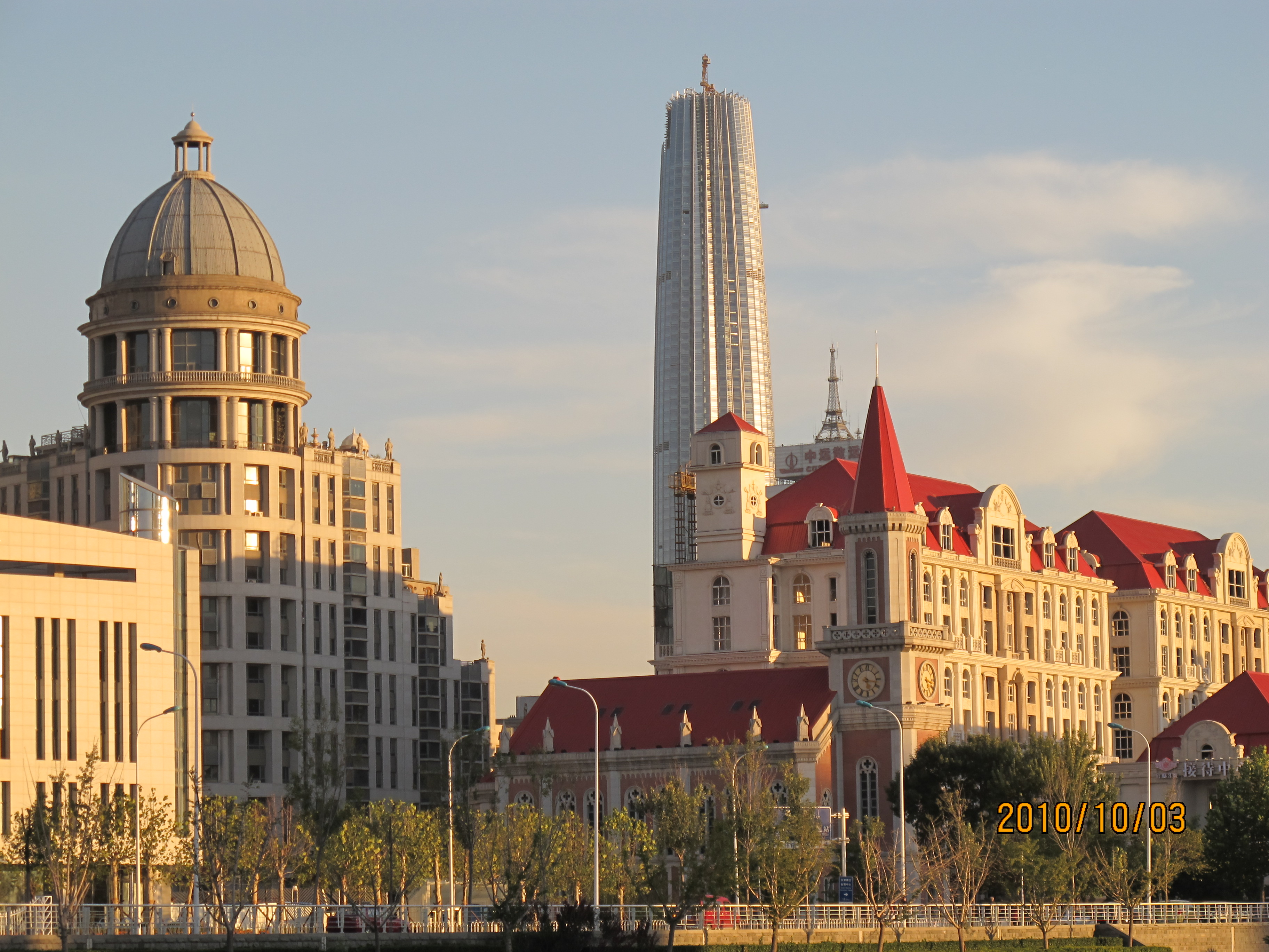 Tianjin Tower from River